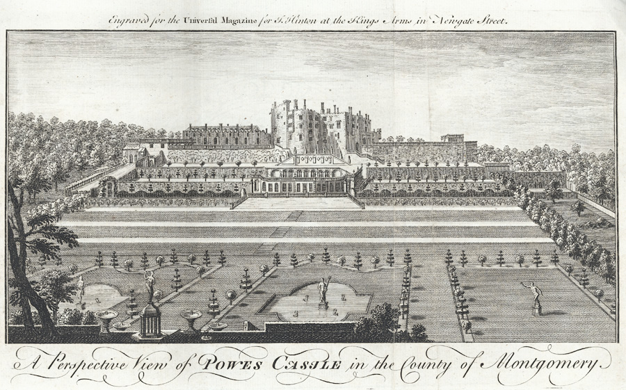 A view of Powis Castle showing the ornamental lawns and gardens in the foreground.